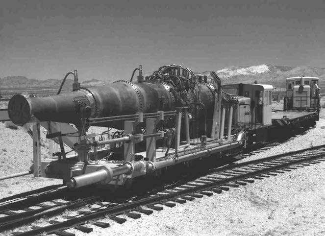 In 1964, at the Pluto Facility of the Nevada Test Site, the Tory II-C nuclear ramjet engine was tested for 5 minutes.